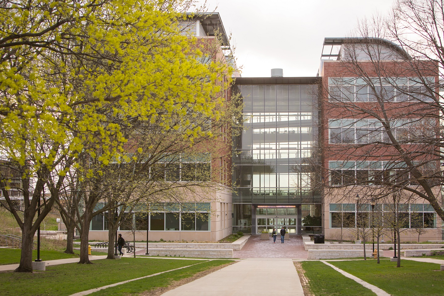 A photo of the science building, Sanger Center for the Sciences on the Beloit College Campus.